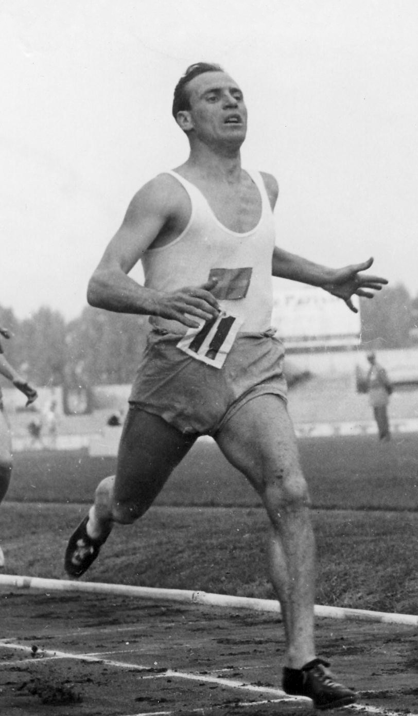 Ingvar Bengtsson (right) at an international competition